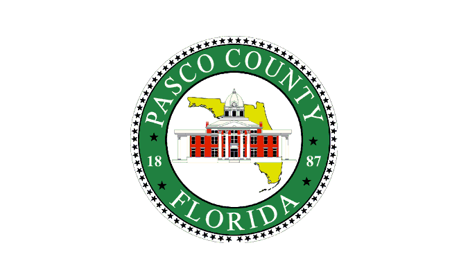 The official flag of Pasco County, Florida.